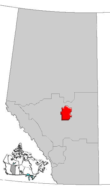 Map of Edmonton Region, Alberta, Canada